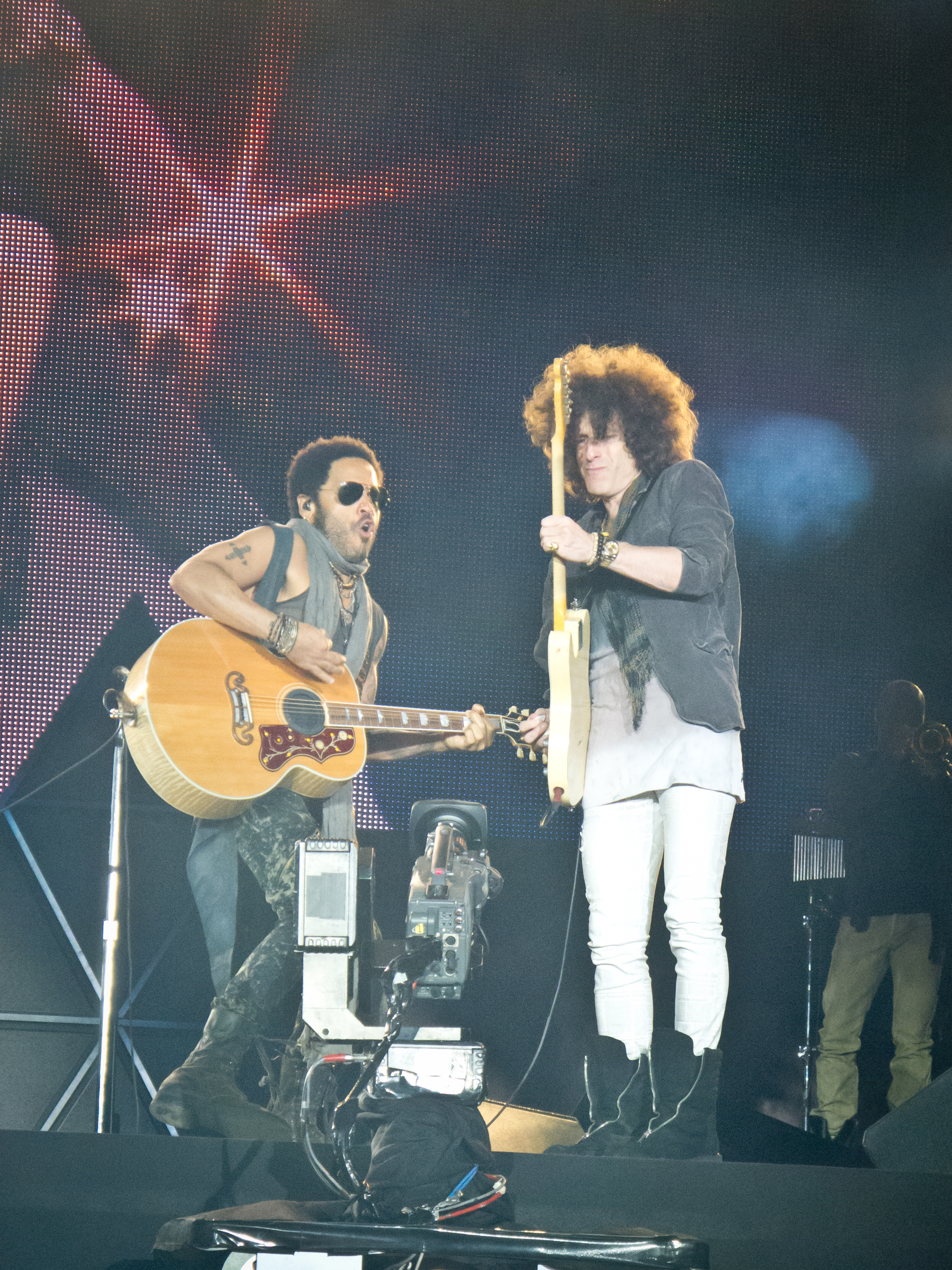 Lenny Kravitz and Craig Ross live in Rock in Rio Madrid 2012.